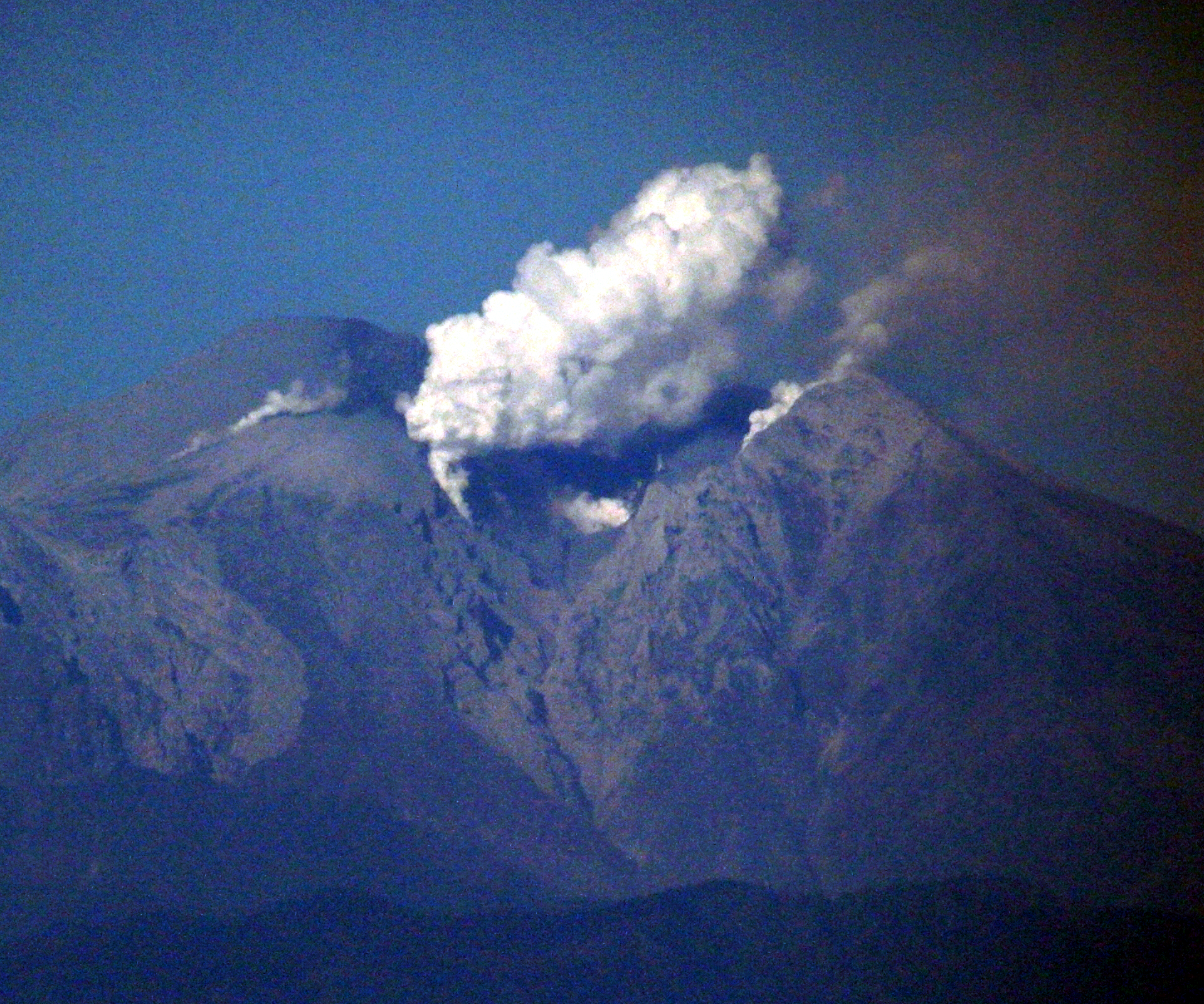 Mount Ontake seen from Mount Noko in Gifu prefecture, Japan. After Septenber 27, 2014 Mount Ontake eruption.